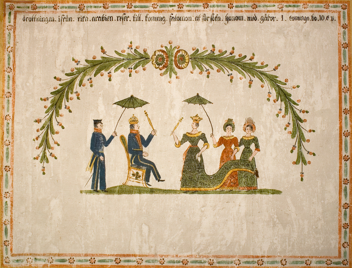 title: "Queen of Sheba travelling to king Solomon", wallpainting in house of peasant.